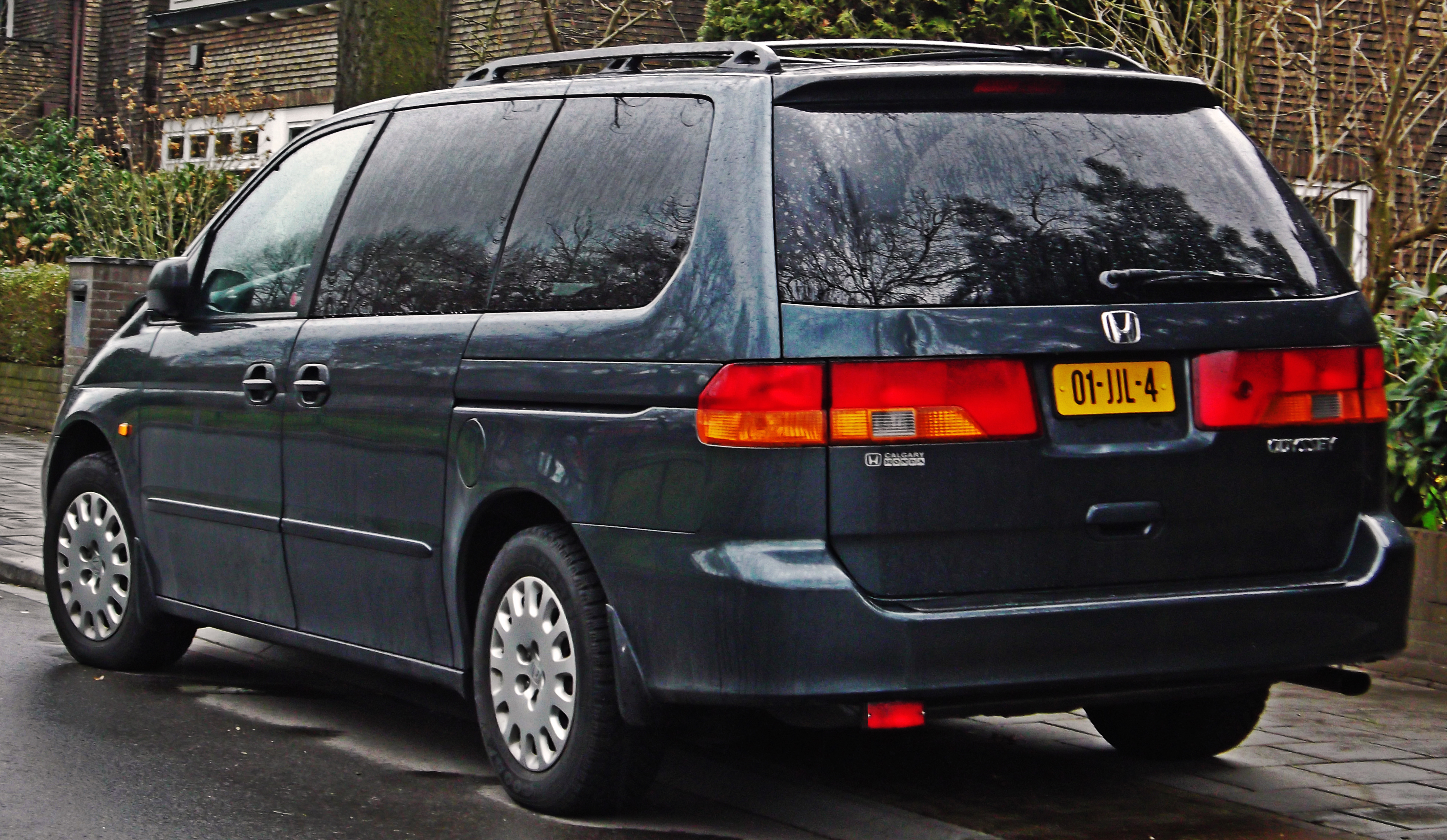 2004. "Calgary Honda" dealer sticker.